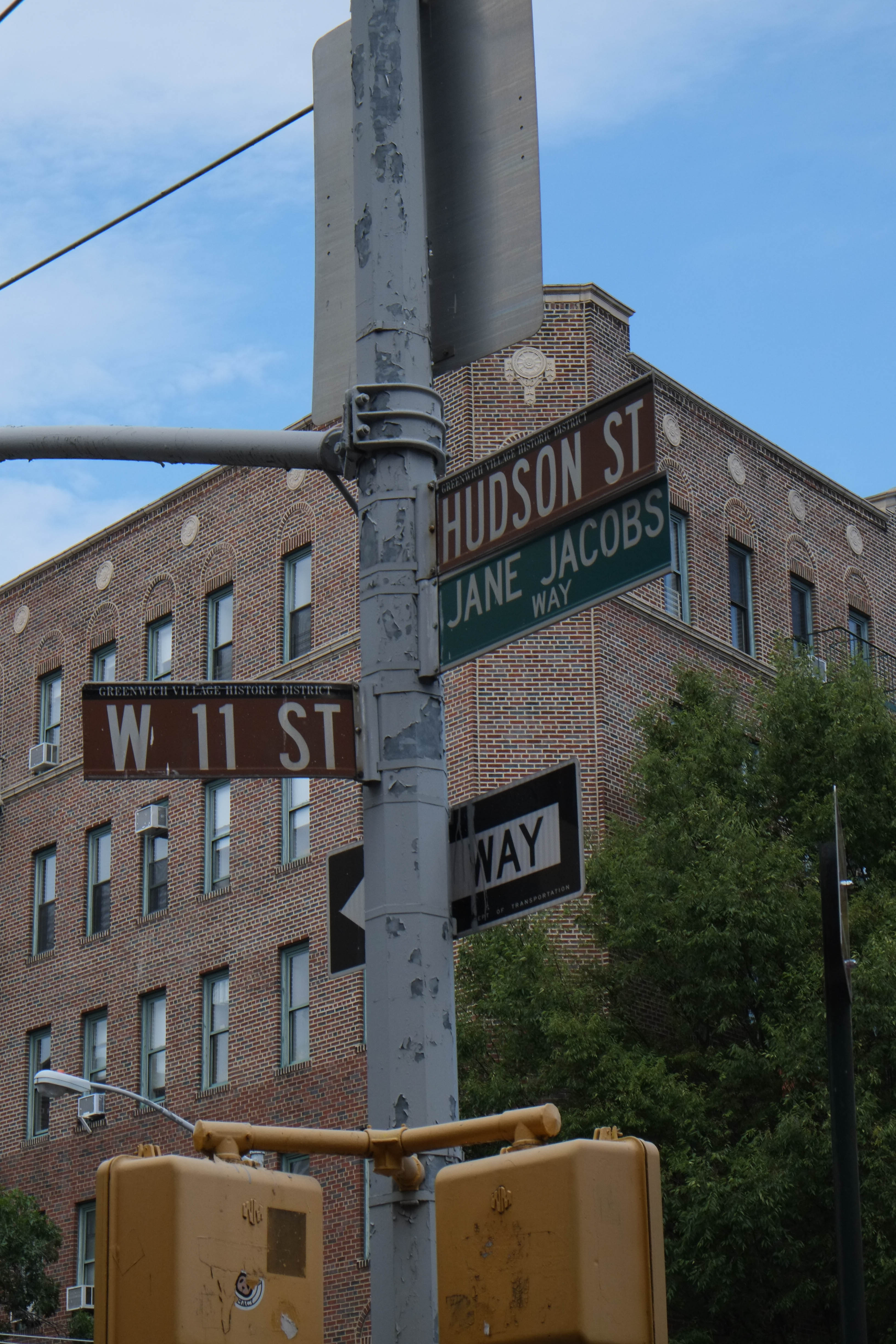 Jane Jacobs Way